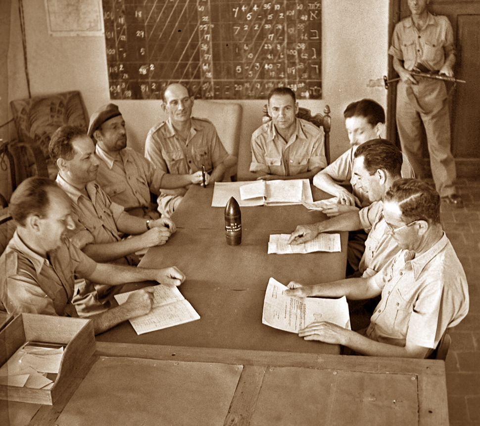 Mishmar HaAm (the People's Guard, the Jewish Civil Defense) in a meeting